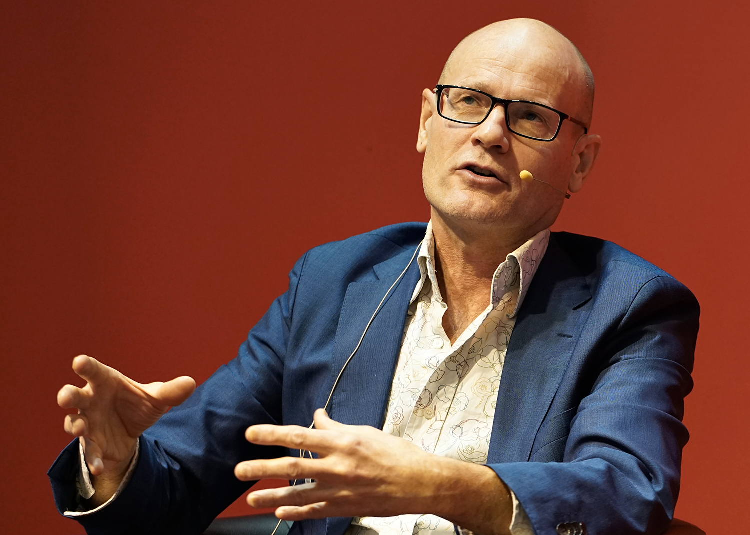 Anders Vægter Nielsen - Danish historian, journalist and writer - at the Copenhagen Book Fair "BogForum 2018", Copenhagen, Denmark